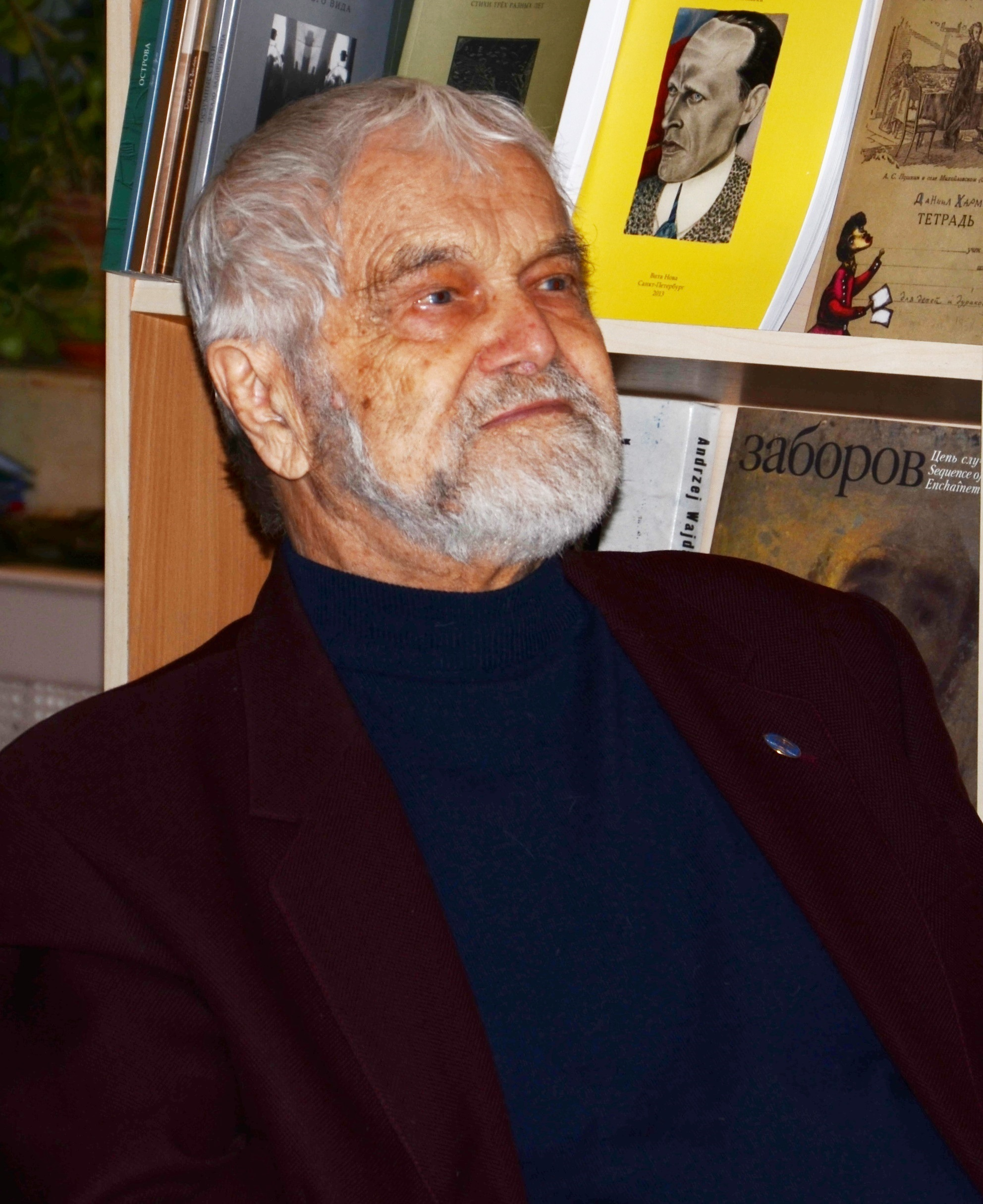 Belarusian painter Georgy Poplavsky on March 6, 2014.